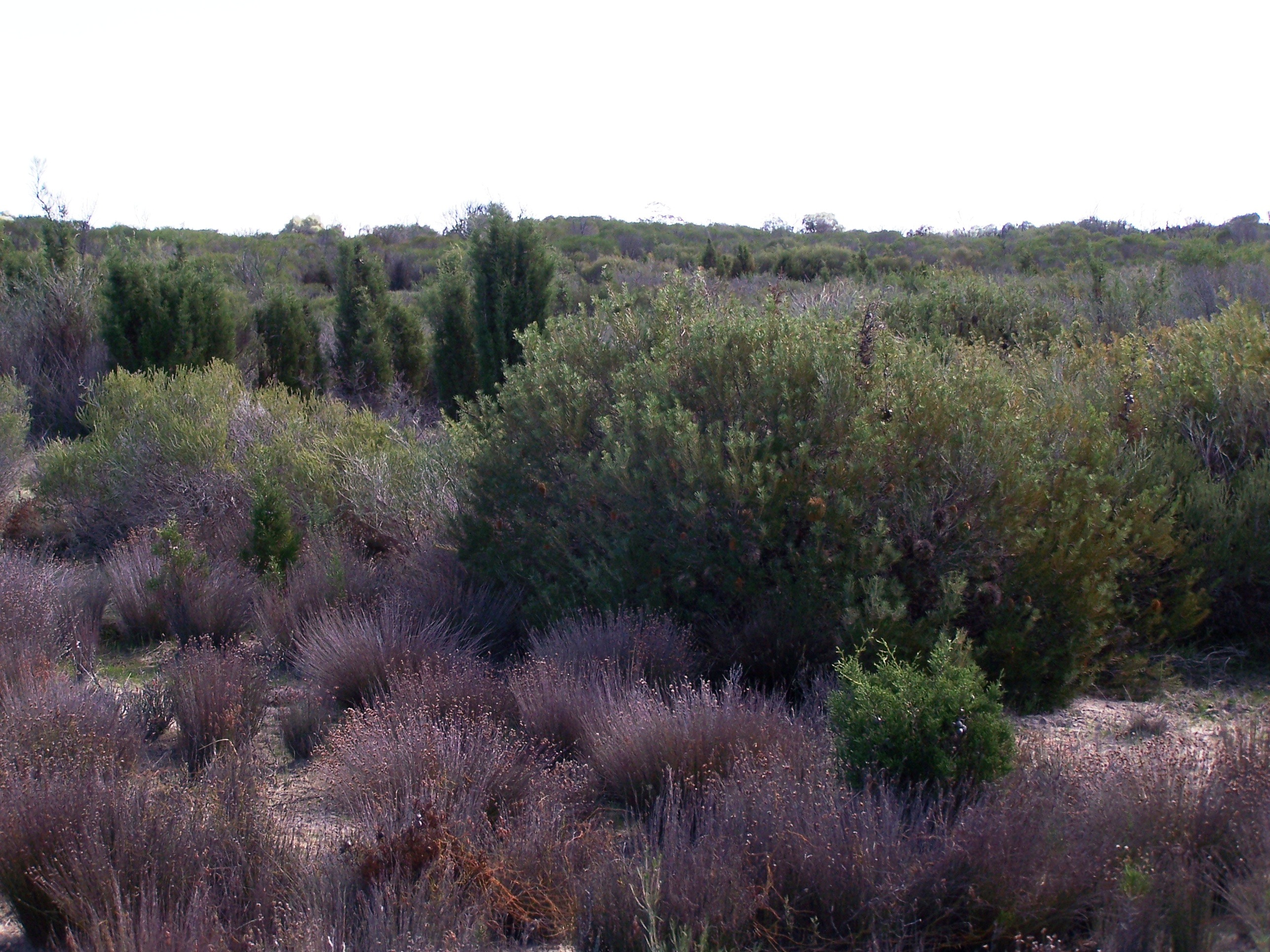 This is a brightened version of Image:B telmatiaea 21 gnangarra.jpg, which was taken by Gnangarra on 14 May 2007. It shows a Banksia telmatiaea growing in its natural habitat at the Yule Brook Botany Reserve in Kenwick, Western Australia.